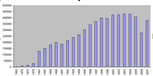 Number of tourists to Reunion between 1963 & 2007